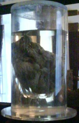 Corazón de Melchor Ocampo